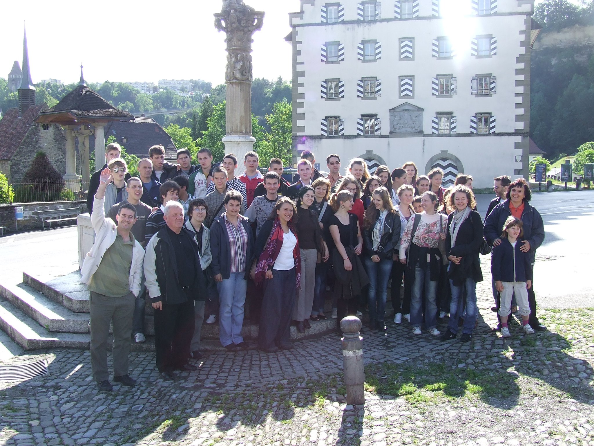 Members of Camerata Academica Porolissensis in Fribourg, Switzerland, 2009.